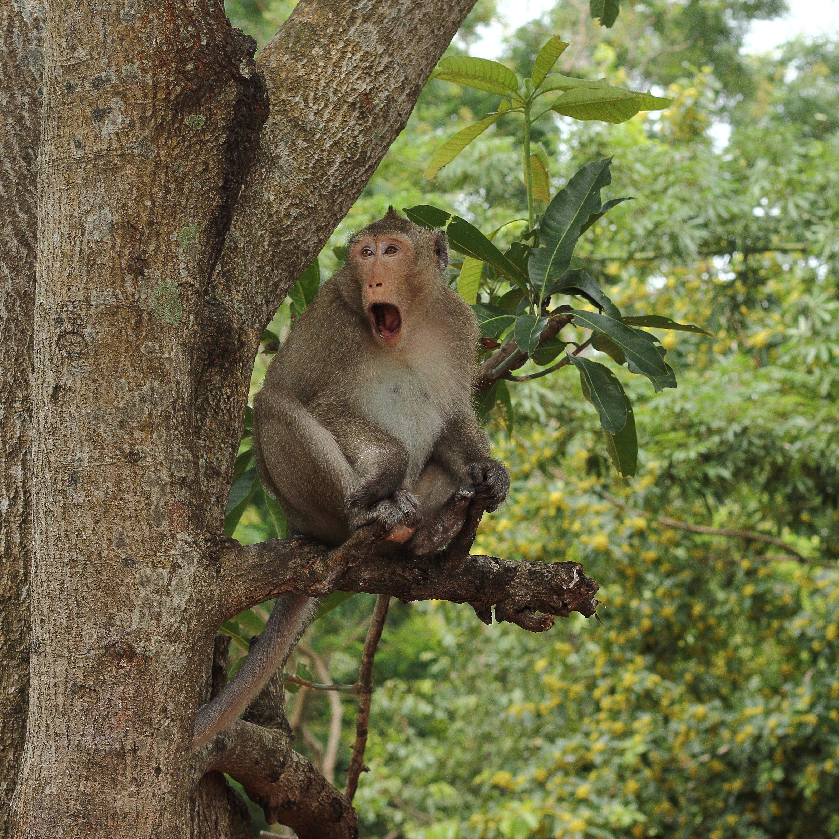 Monkey in the jungle ភាសាខ្មែរ: ស្វានៅក្នុងព្រៃ